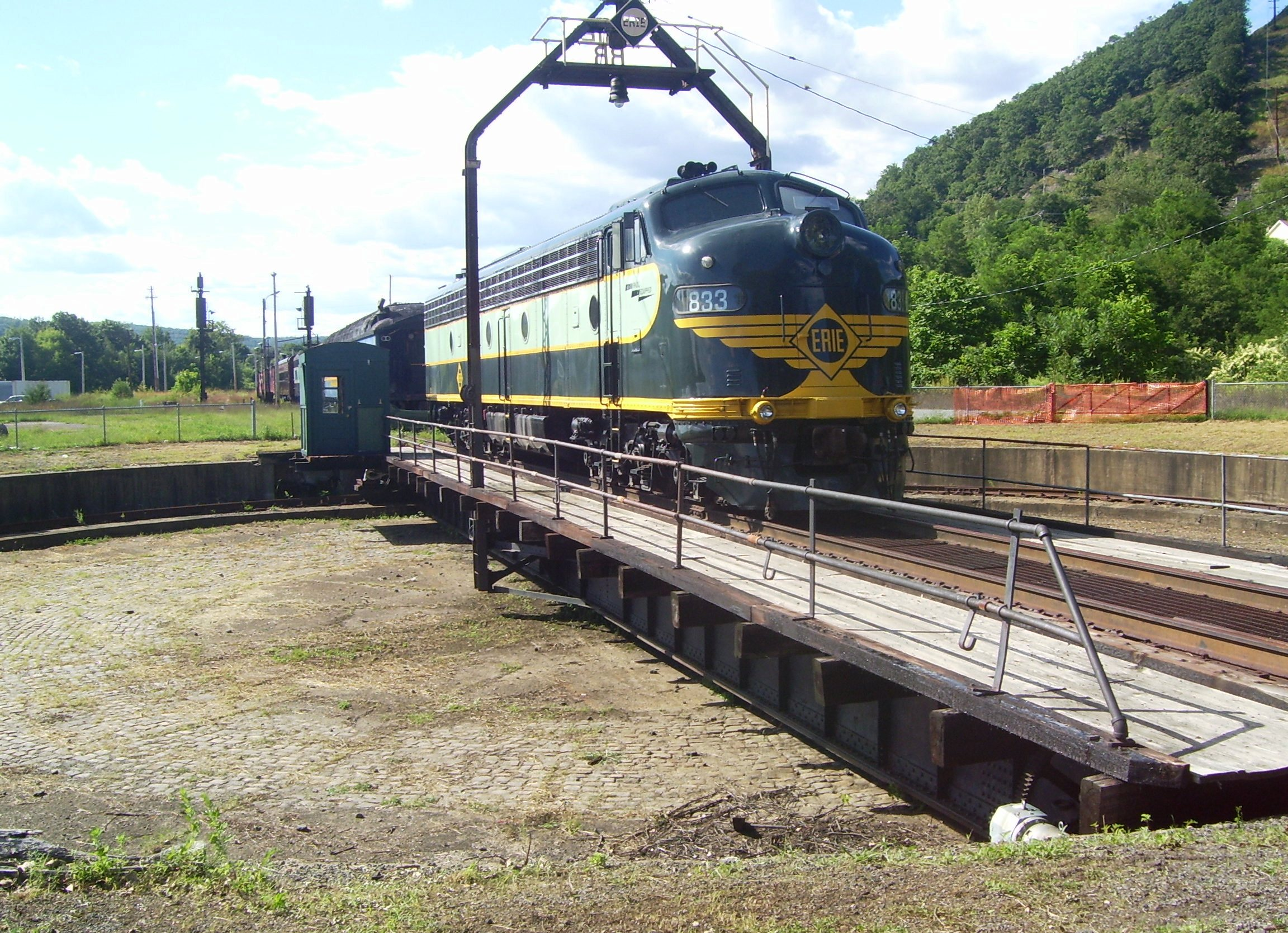 The working electric railroad turntable in Port Jervis, New York is the largest operating turntable in the United States. There was originally a roundhouse on the site, which was burned down by arson. Originally built by the Erie Railroad, the turntable was restored in 1996 after 20 years of disuse.